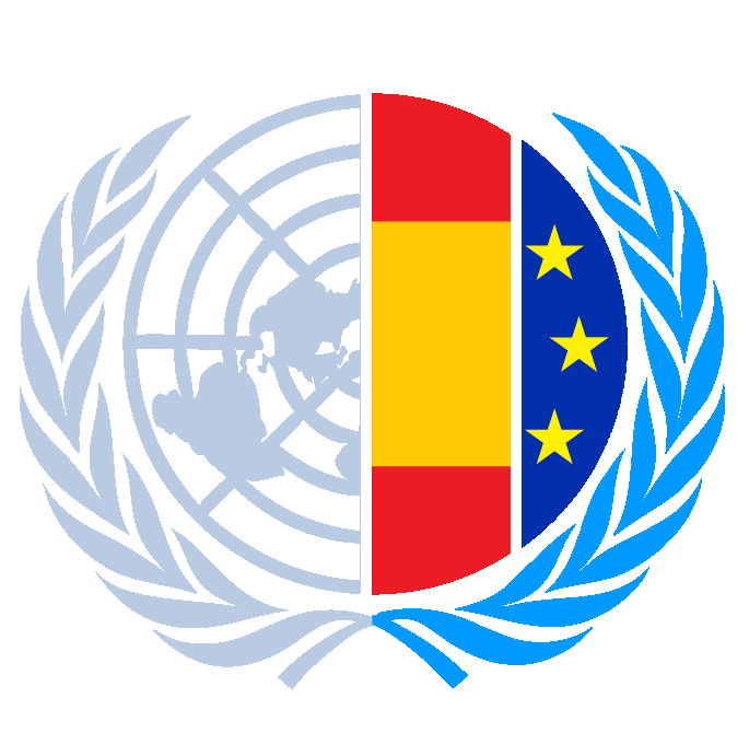 Logo of the Permanent Representation of Spain to the United Nations